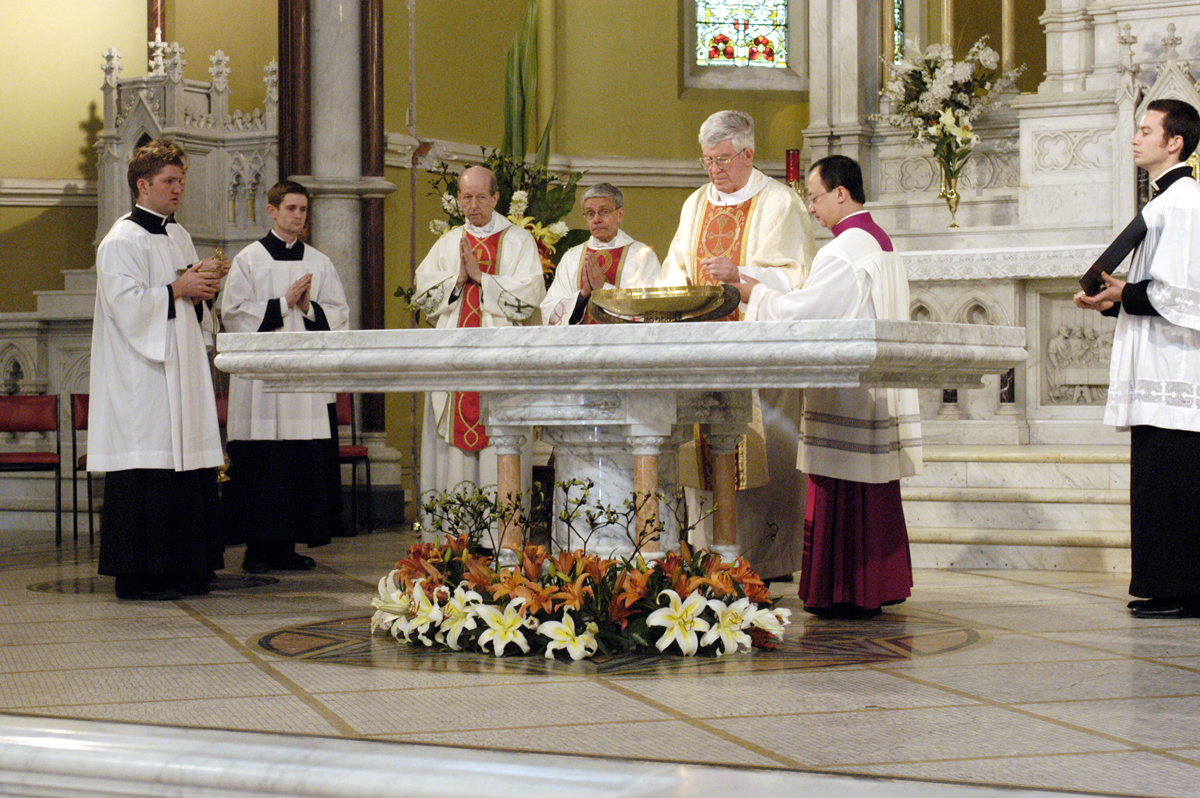 Auxiliary Bishop Joseph Connell consecrates St Mary's new altar 'coram Populum'.